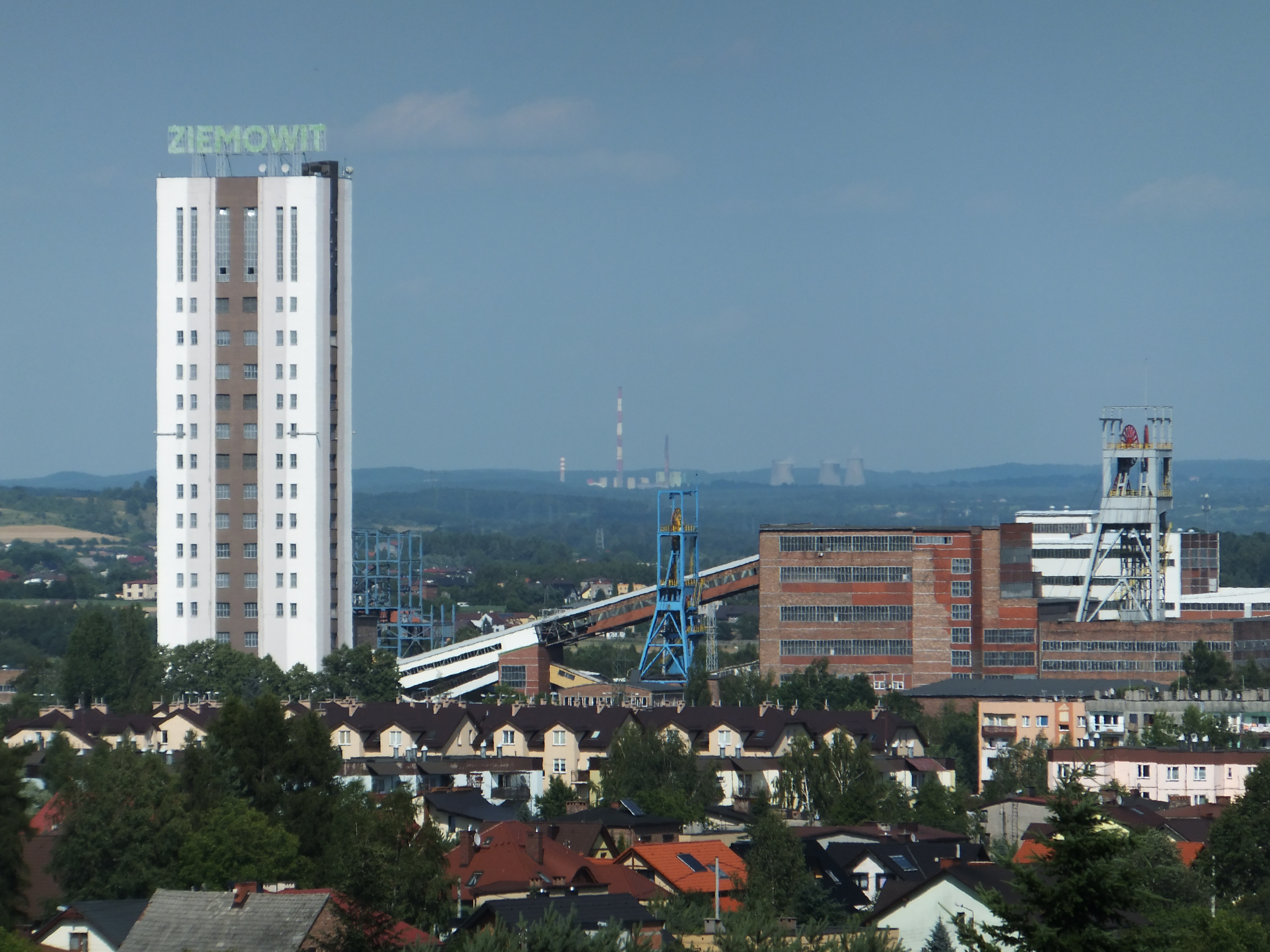 Coal Mine Ziemowit in Lędziny (Poland), view from the hill Klimont.